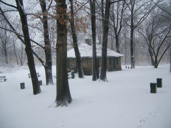 Agassiz Road Duck House in the Back Bay Fens, Boston, Massachusetts. Architect: Alexander Wadsworth Longfellow, Jr.